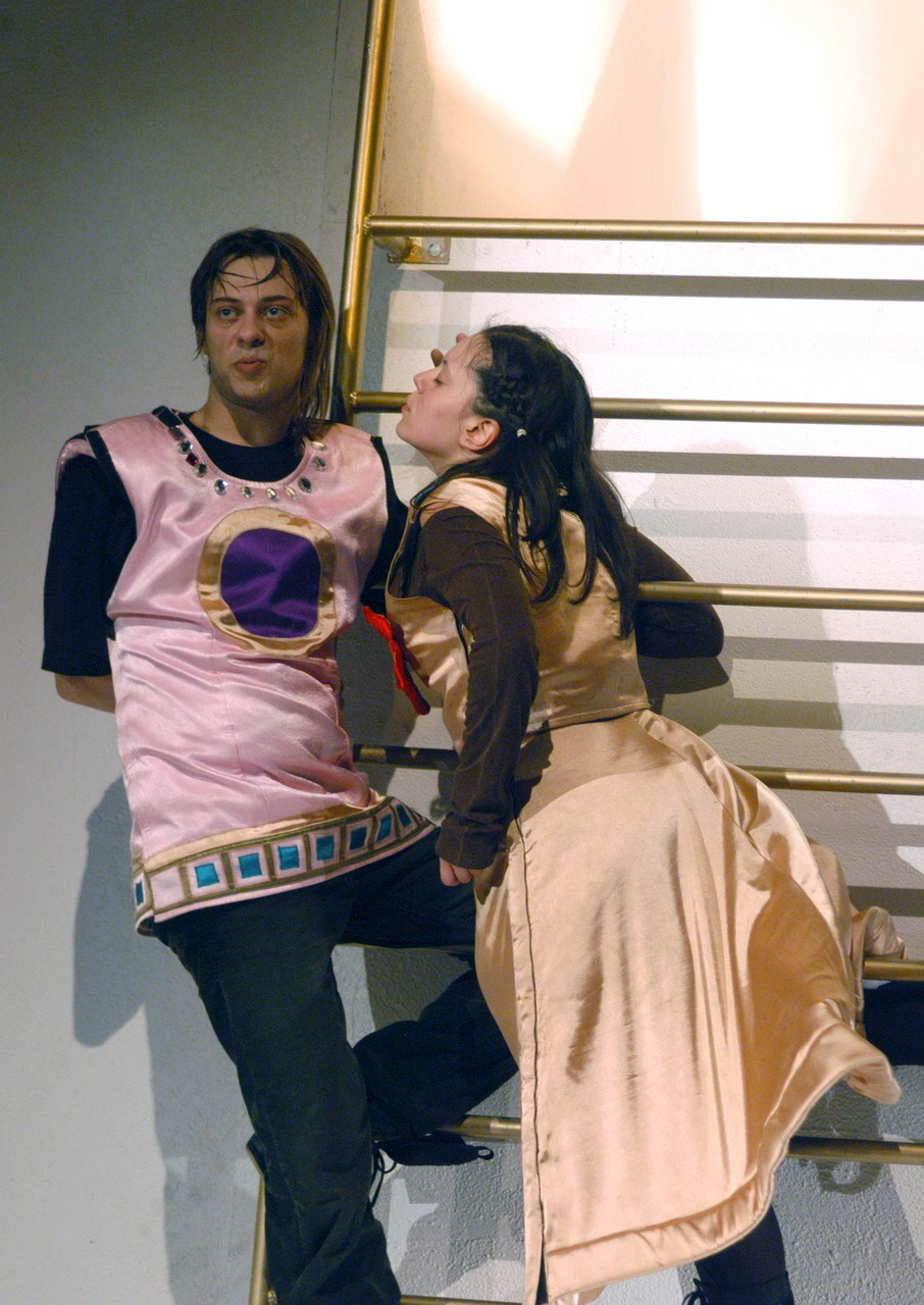 "Romeo and Juliet", a Tragedy written by William Shakespeare directed by Predrag Štrbac; actors: Goran Jevtić and Jovana Mišković, SNT, Novi Sad, 2005/2006, Srpski (latinica): Romeo i Julija, tragedija Vilijama Šekspira u režiji Predraga Štrpca, glumci: Goran Jevtić and Jovana Mišković, SNP, Novi Sad, 2005/2006.